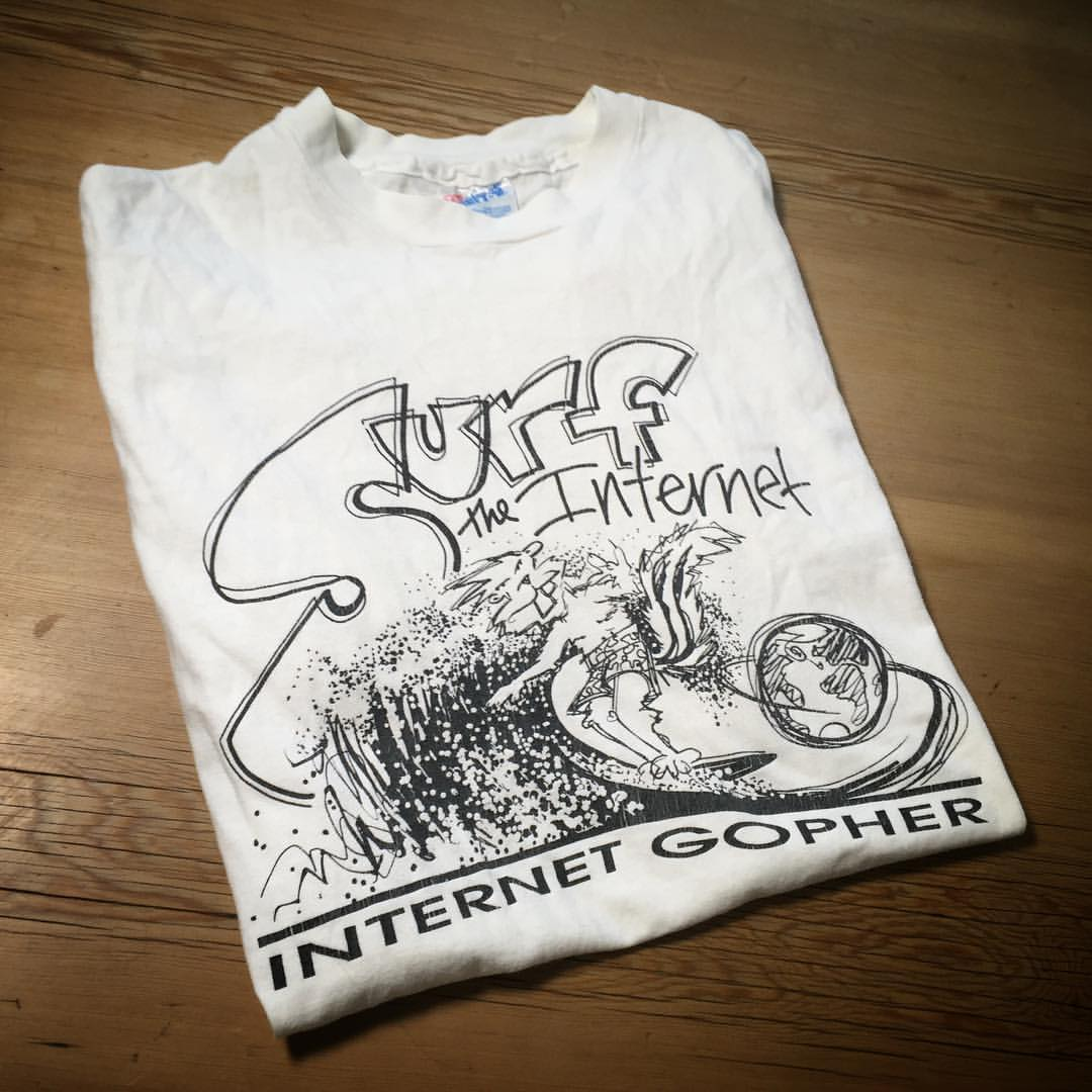 T-shirt with text and logo from Gopher.